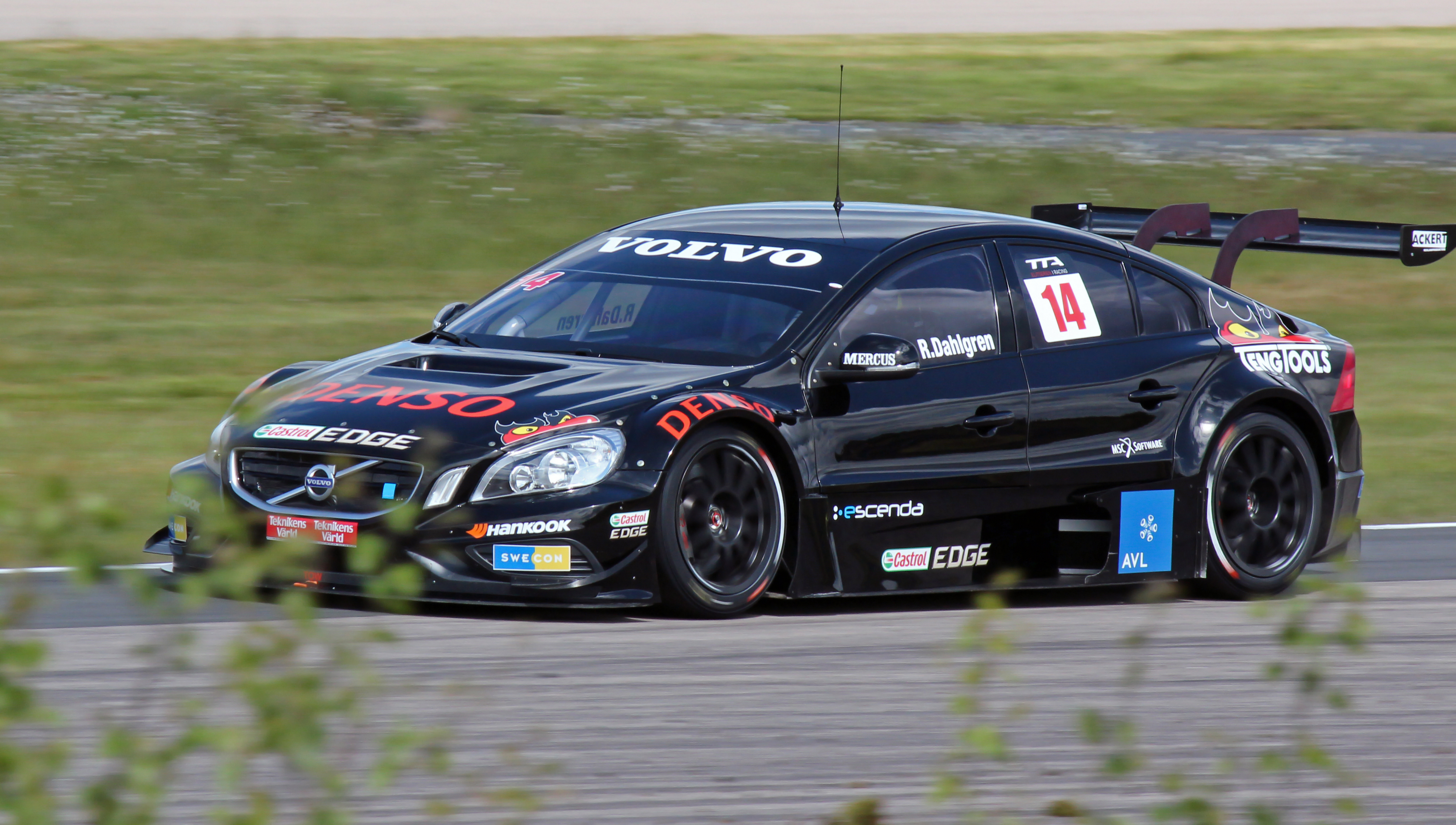 Robert Dahlgren in his Volvo S60 Solution-F for Volvo Polestar Black R (Polestar Racing) in TTA – Racing Elite League at Anderstorp Raceway in 2012.